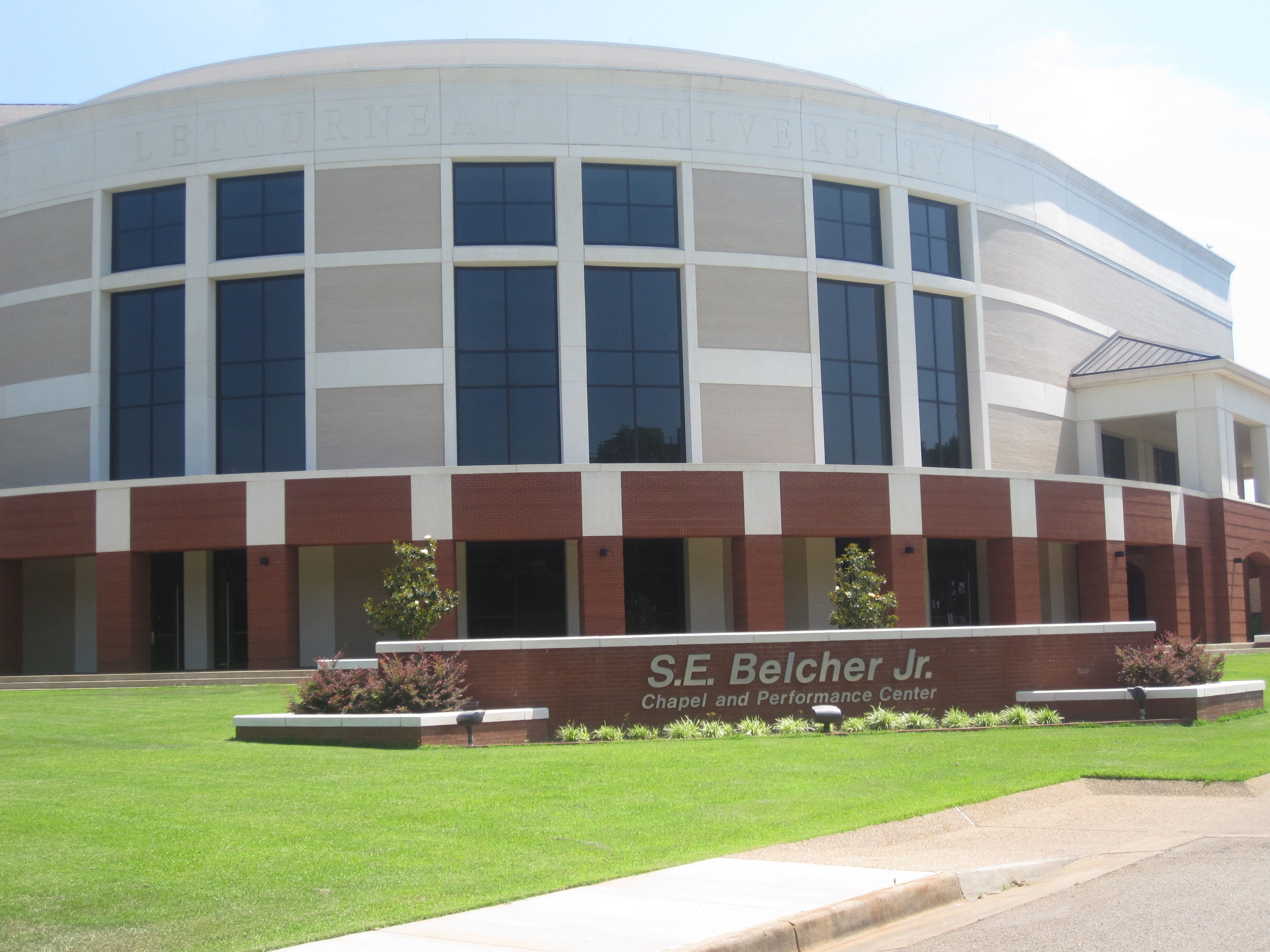 I took photo with Canon camera in Longview, TX, at LeTourneau University